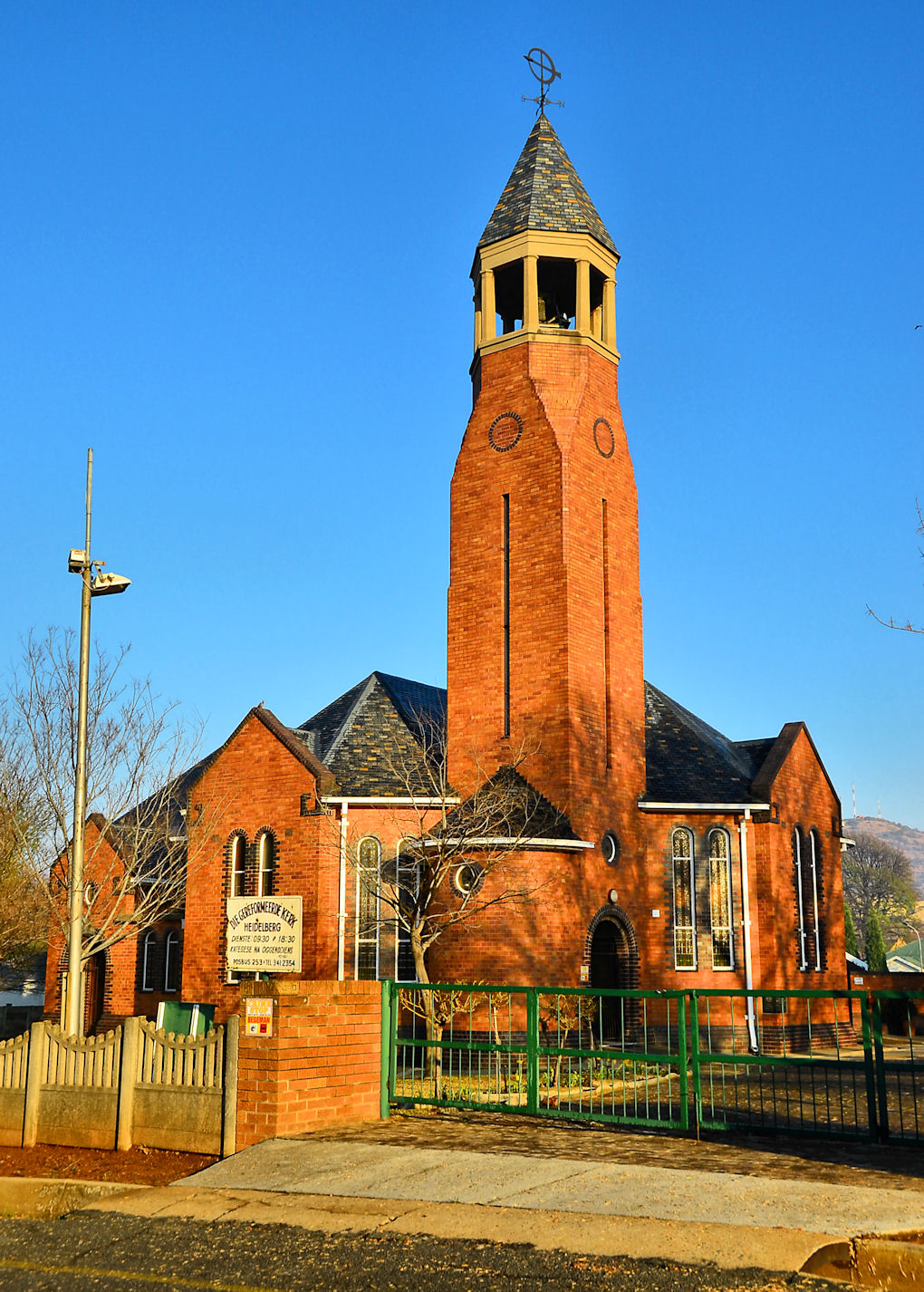 Church in Heidelberg Gauteng